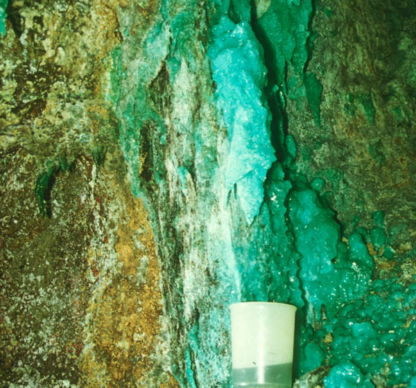 Collecting drainage in the Iron Mountain Mine, Redding, California.